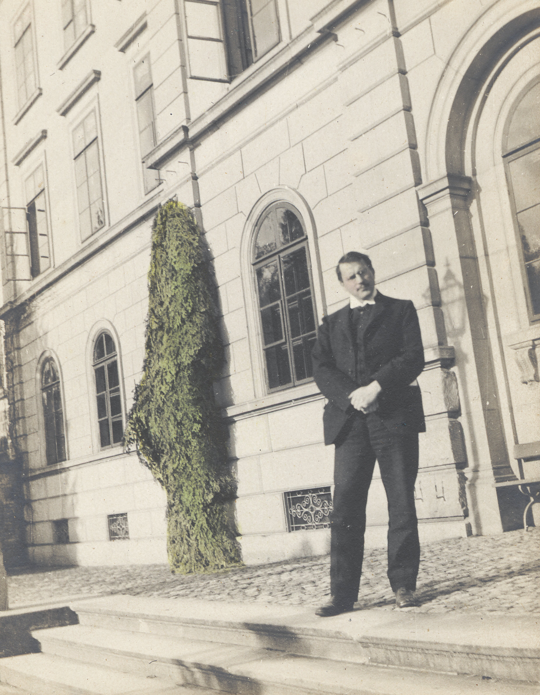 Hand-colored photograph of Carl Jung in USA, published in 1910. Carl Gustav Jung, full-length portrait, standing in front of building in Burghölzi, Zurich